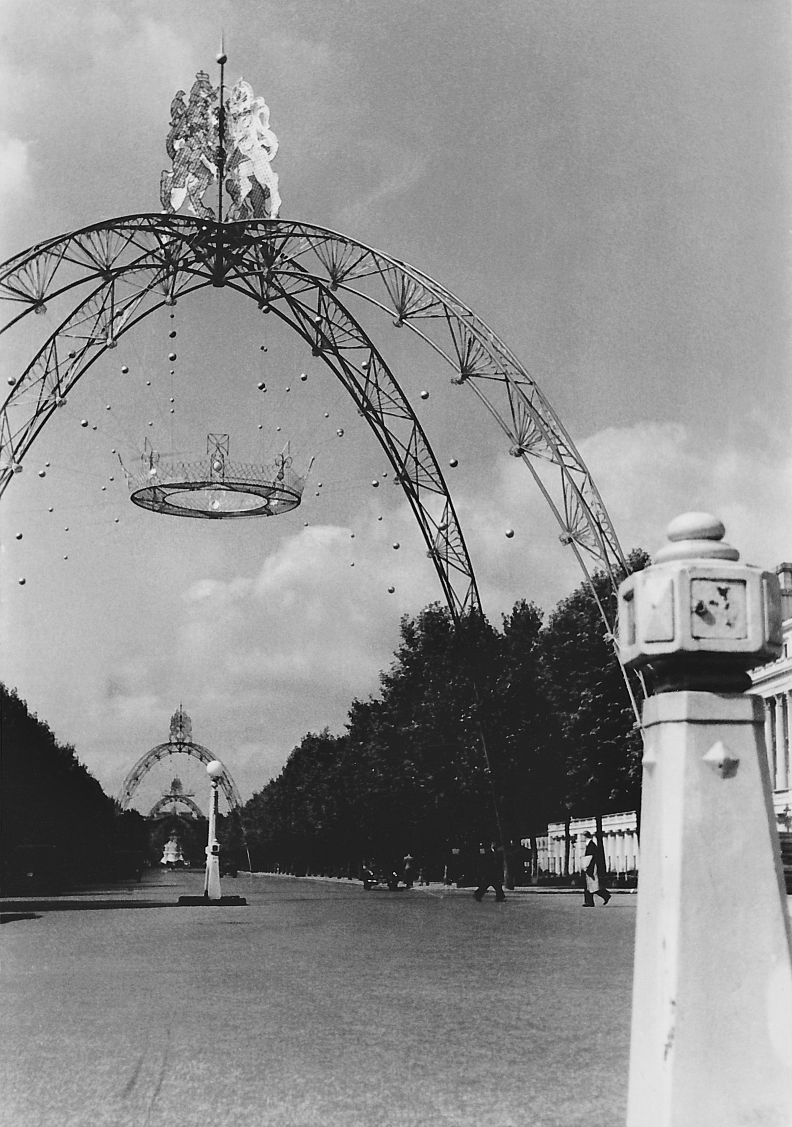 The Mall during the Coronation 1953